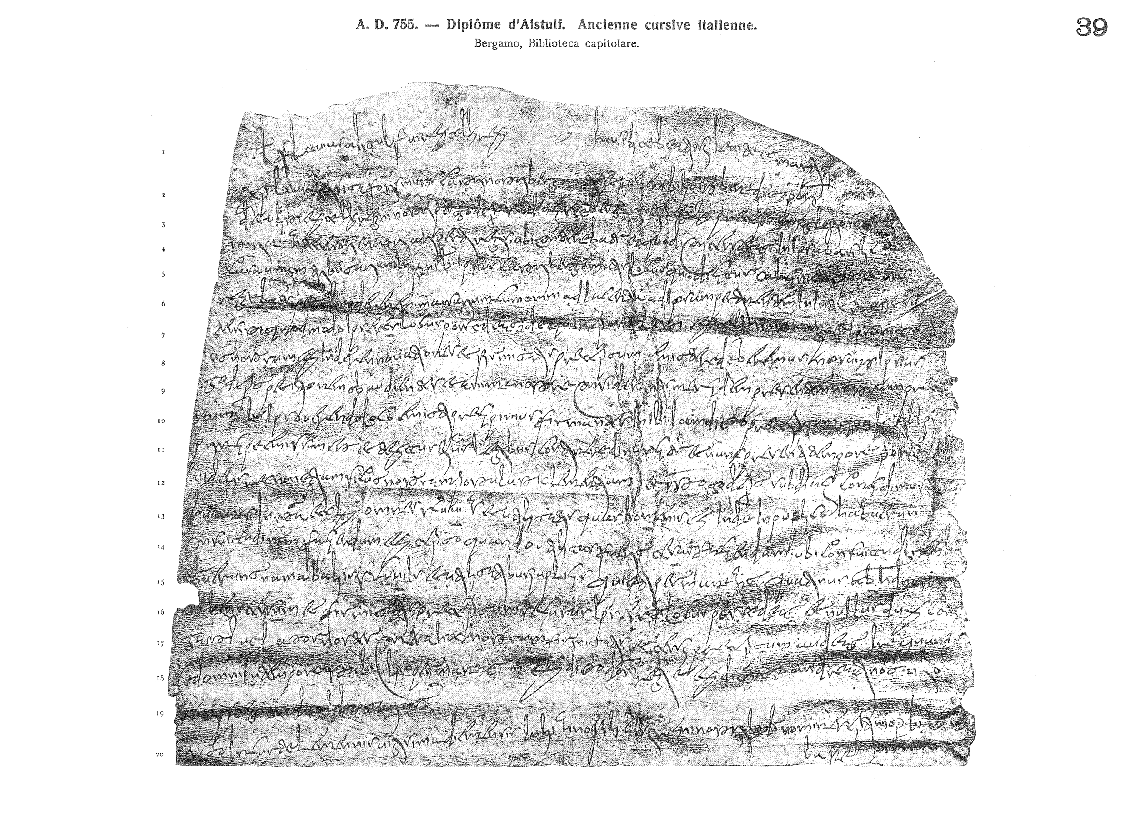 Diploma of Lombard king Astolfo, dated 755. Minuscule of Lombard origin.